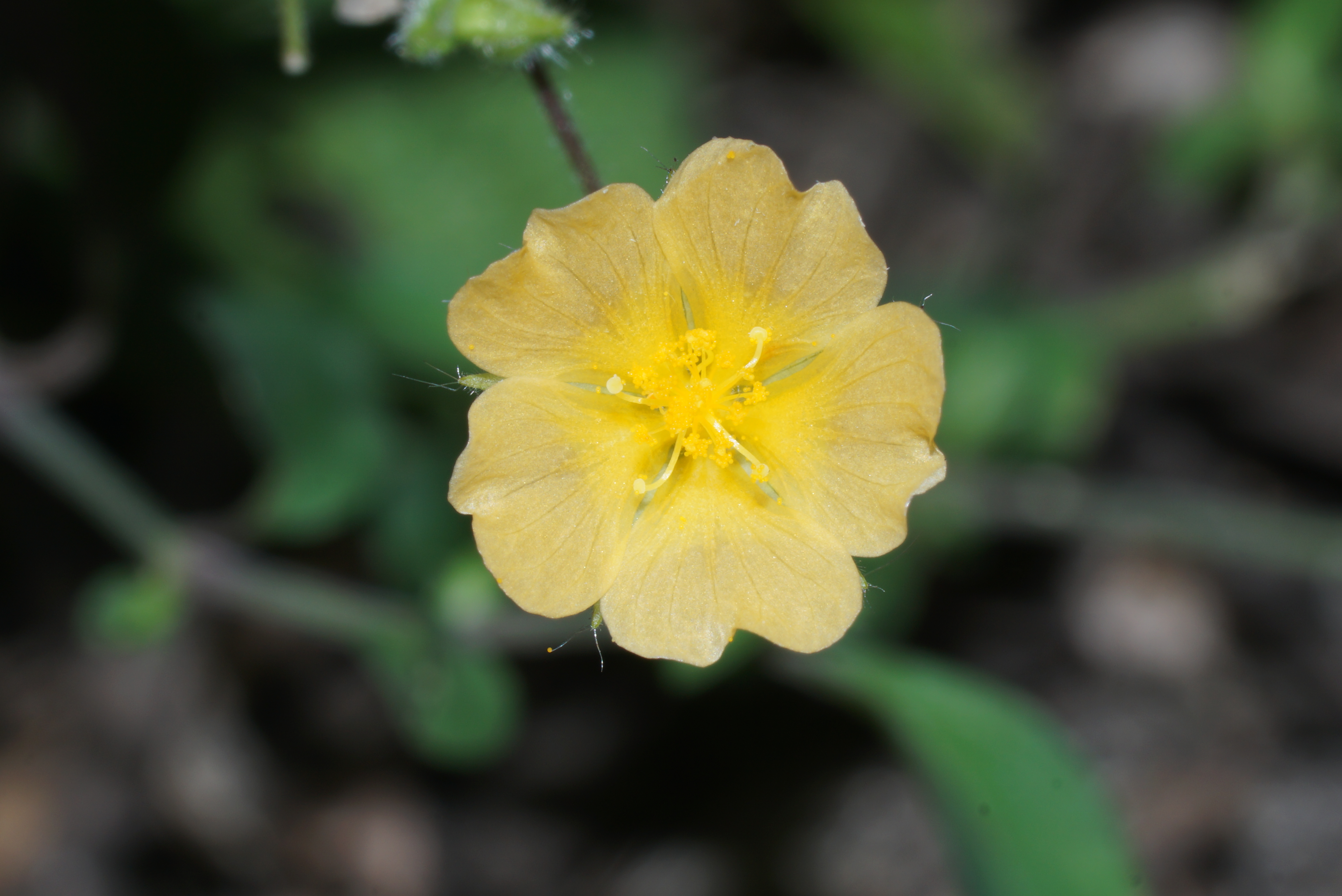 Heartleaf Fanpetals (Sida cordata) or Sida Veronicaefolia